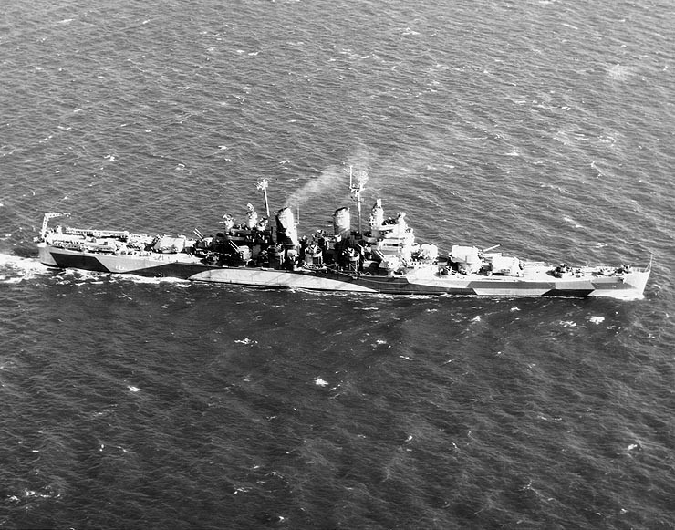 The U.S. Navy heavy cruiser USS Pittsburgh (CA-72) underway in November 1944. Her camouflage is Measure 33, Design 18D.